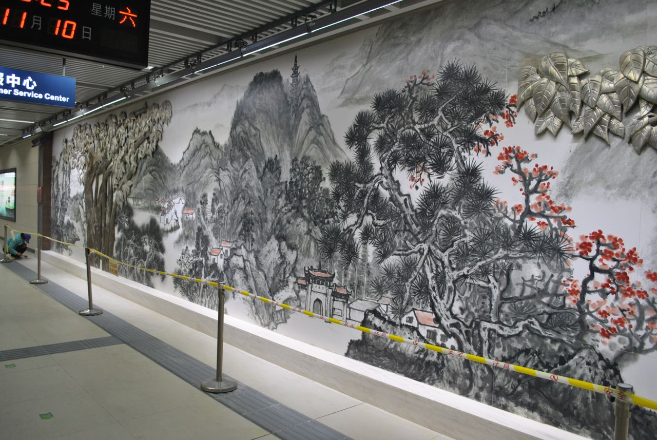 Baotong Temple Station